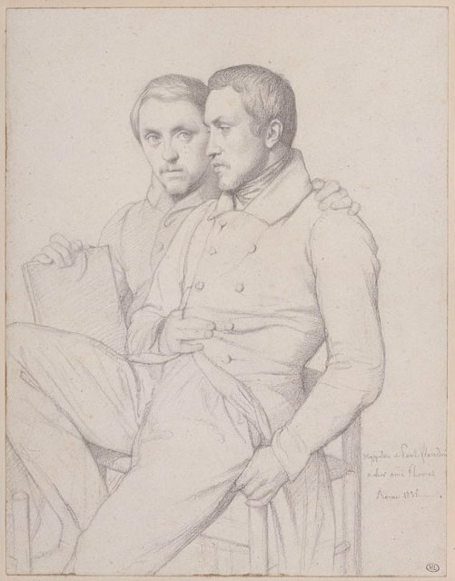 Double Self-Portrait of Hippolyte and Paul Flandrin